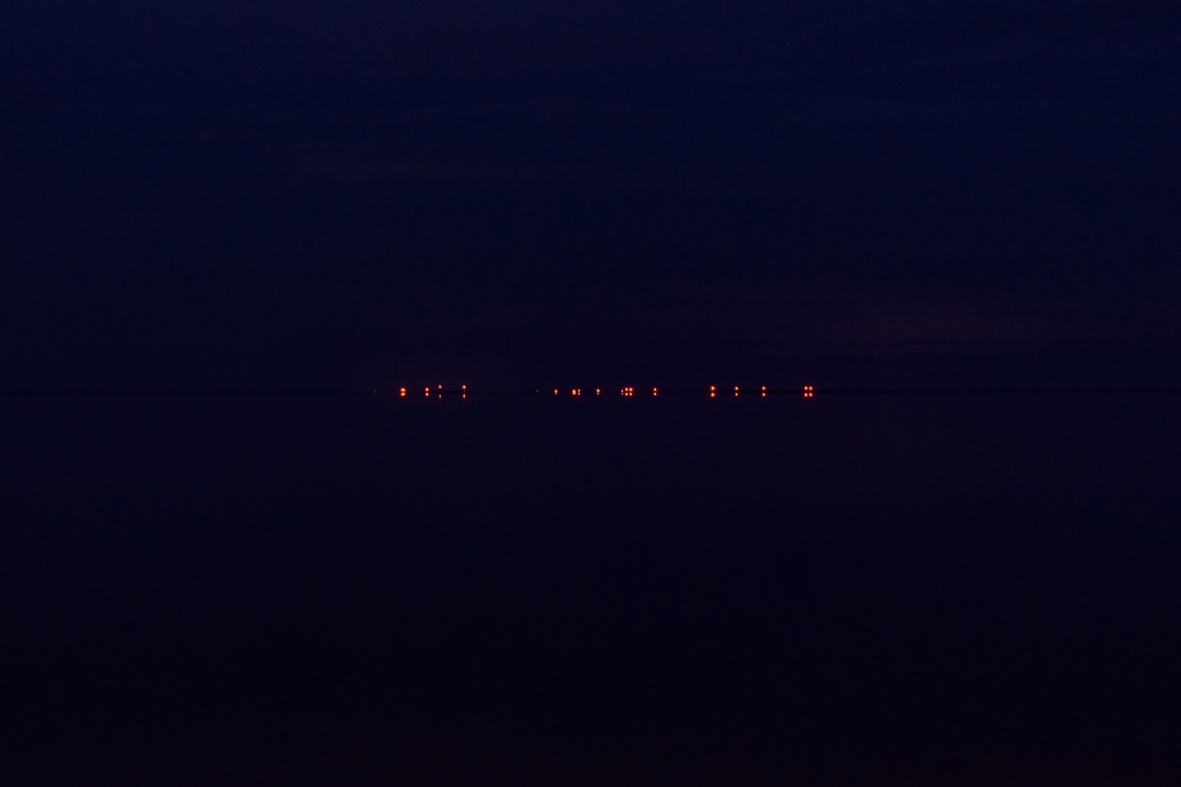 Night over Curonian Lagoon, Nida, Lithuania